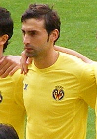 Villarreal starting XI posing before a peseason match at Wigan Athletic.